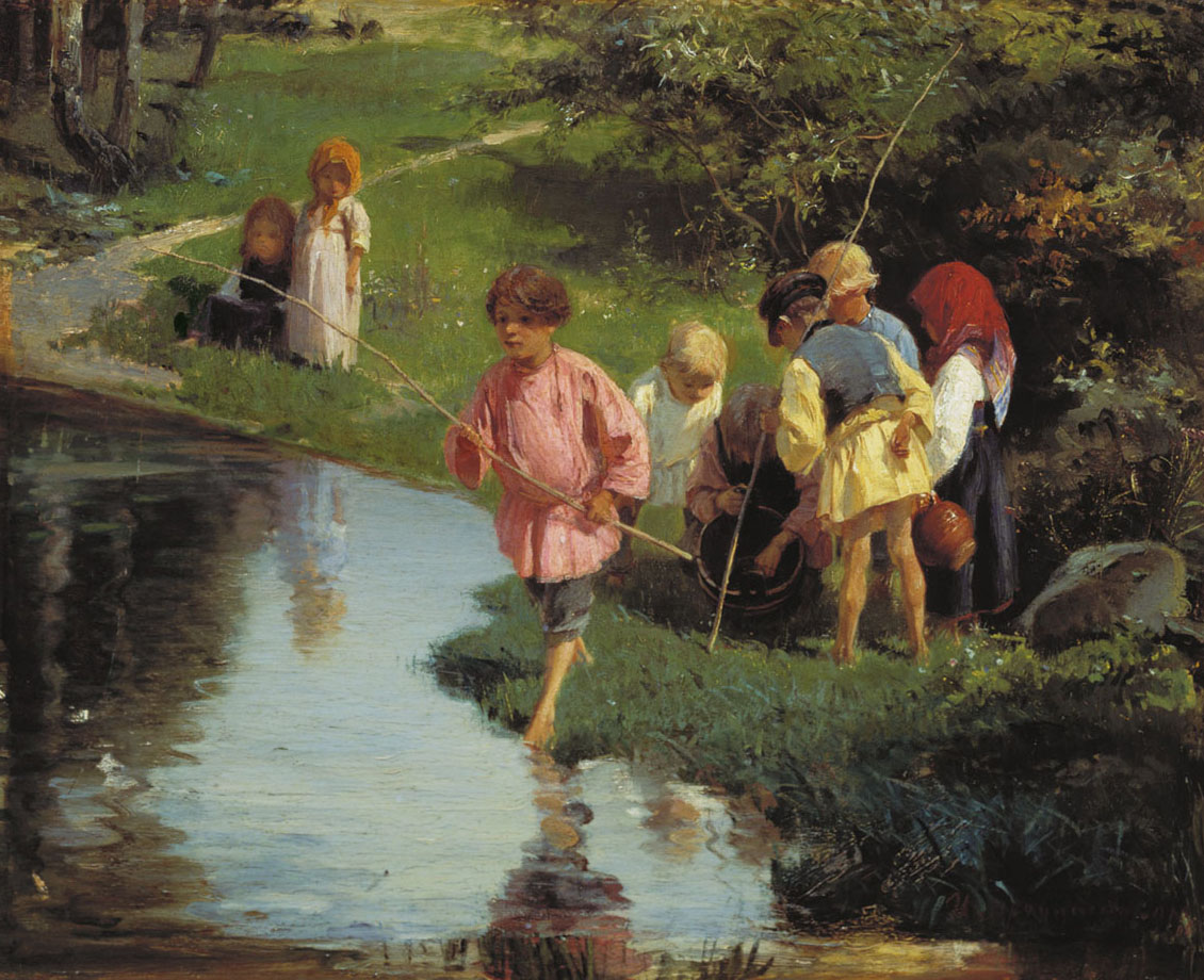 Illarion Pryanishnikov. Children at Fishing. 1882